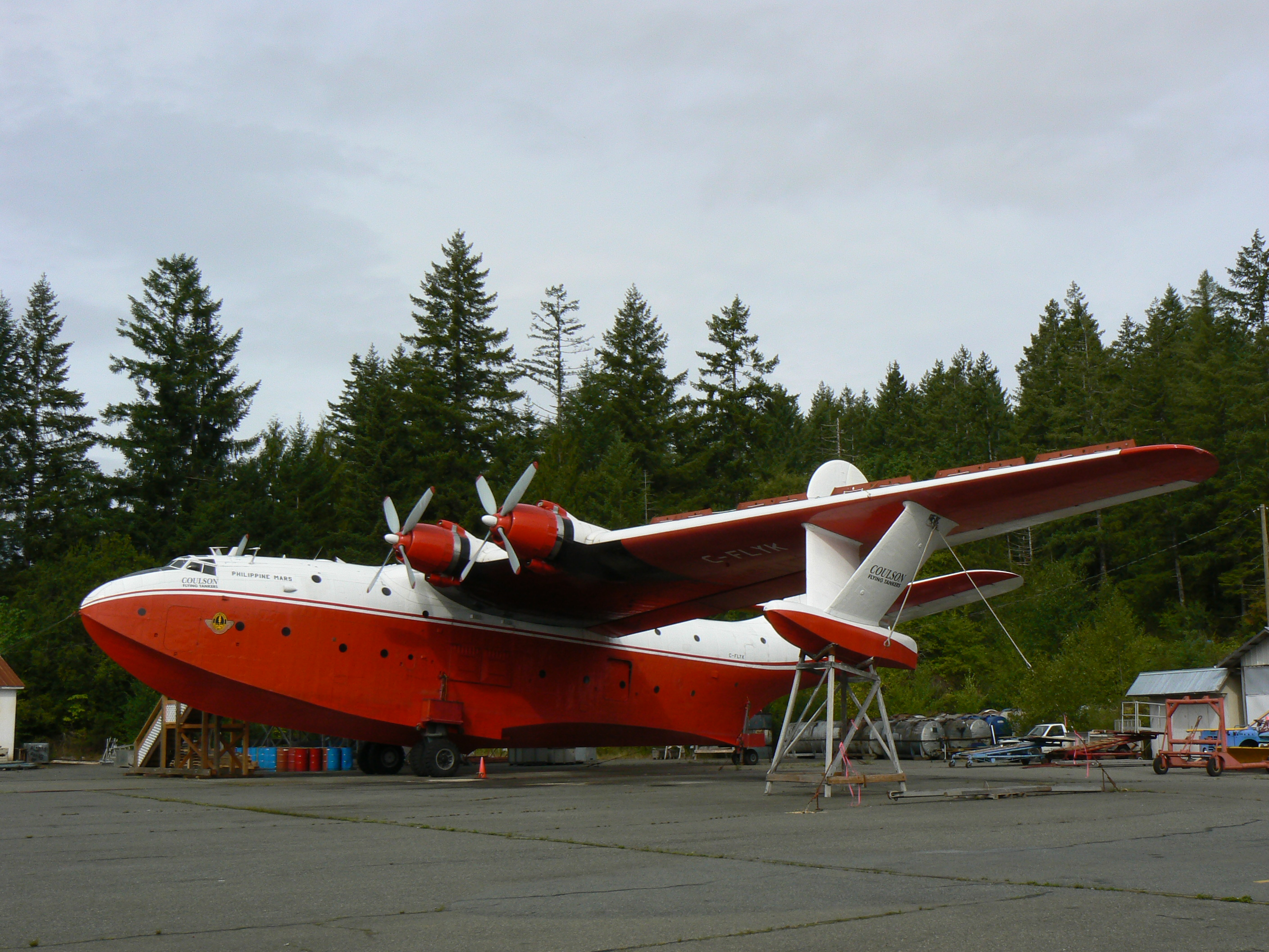 The Philippine Mars on shore. This Martin Mars water bomber is operated by Coulson Flying Tankers based at Sproat Lake near Port Alberni, BC. Her sister aircraft, the Hawaii Mars was fighting fires in California at this time.